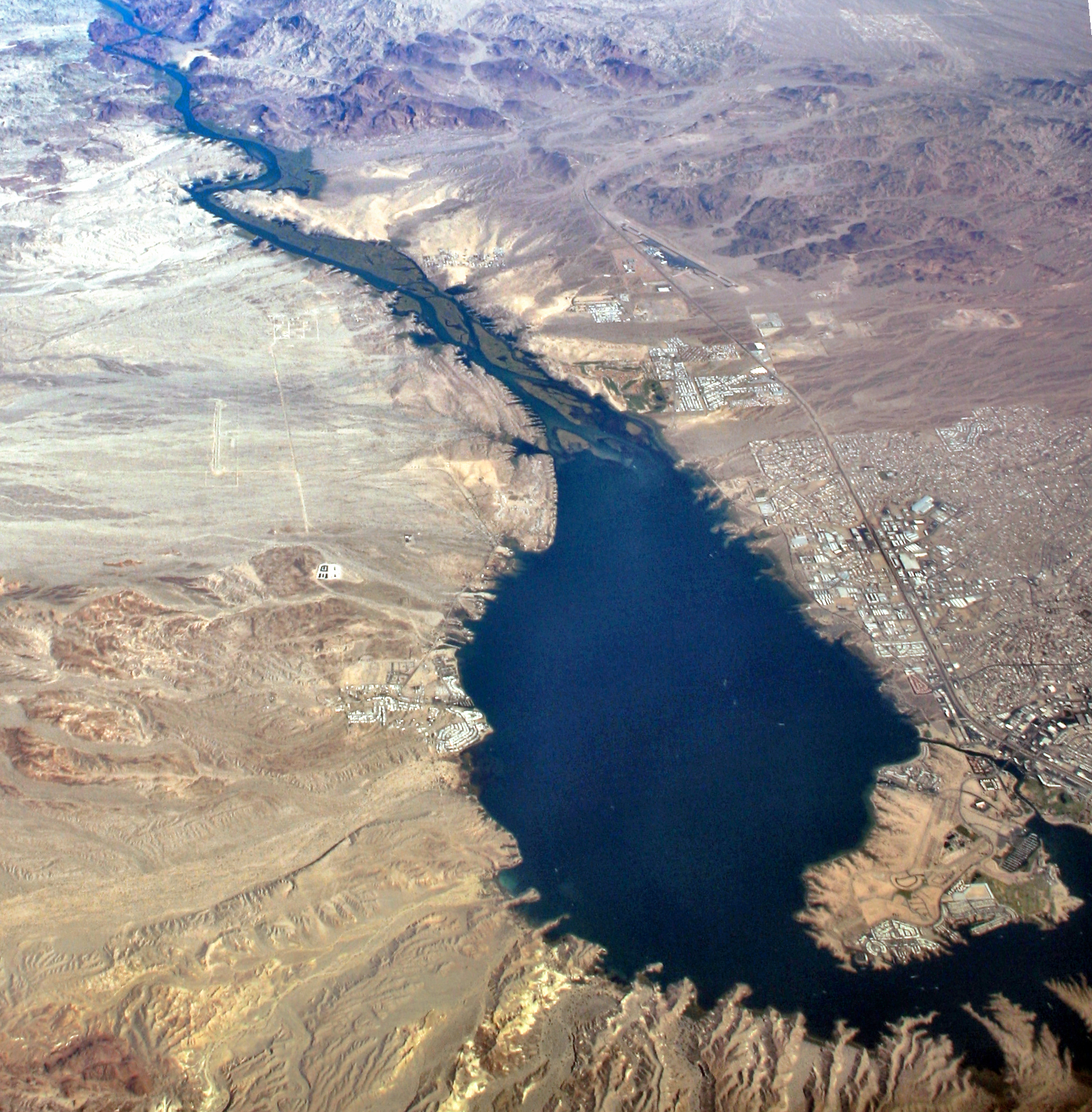 Lake Havasu, and the city named after it on the right. Lake Havasu is in the Colorado River. (view almost true-north) California is at left with Chemehuevi Wash & Chemehuevi Valley; on right is the city & north is the dark (volcanic?) Mohave Mountains of Arizona.